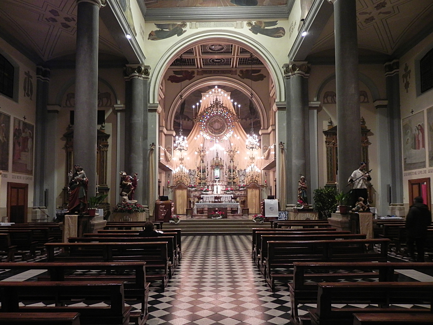 Visione interna della Parrocchia di San Martino Vescovo di Gorno